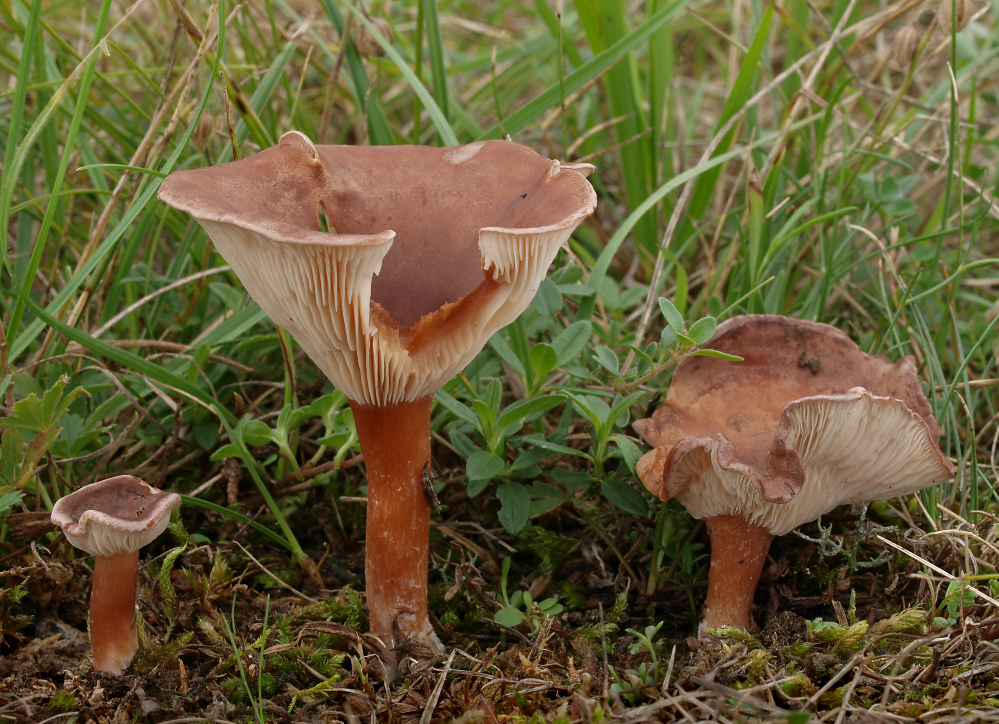 Infundibulicybe glareosa